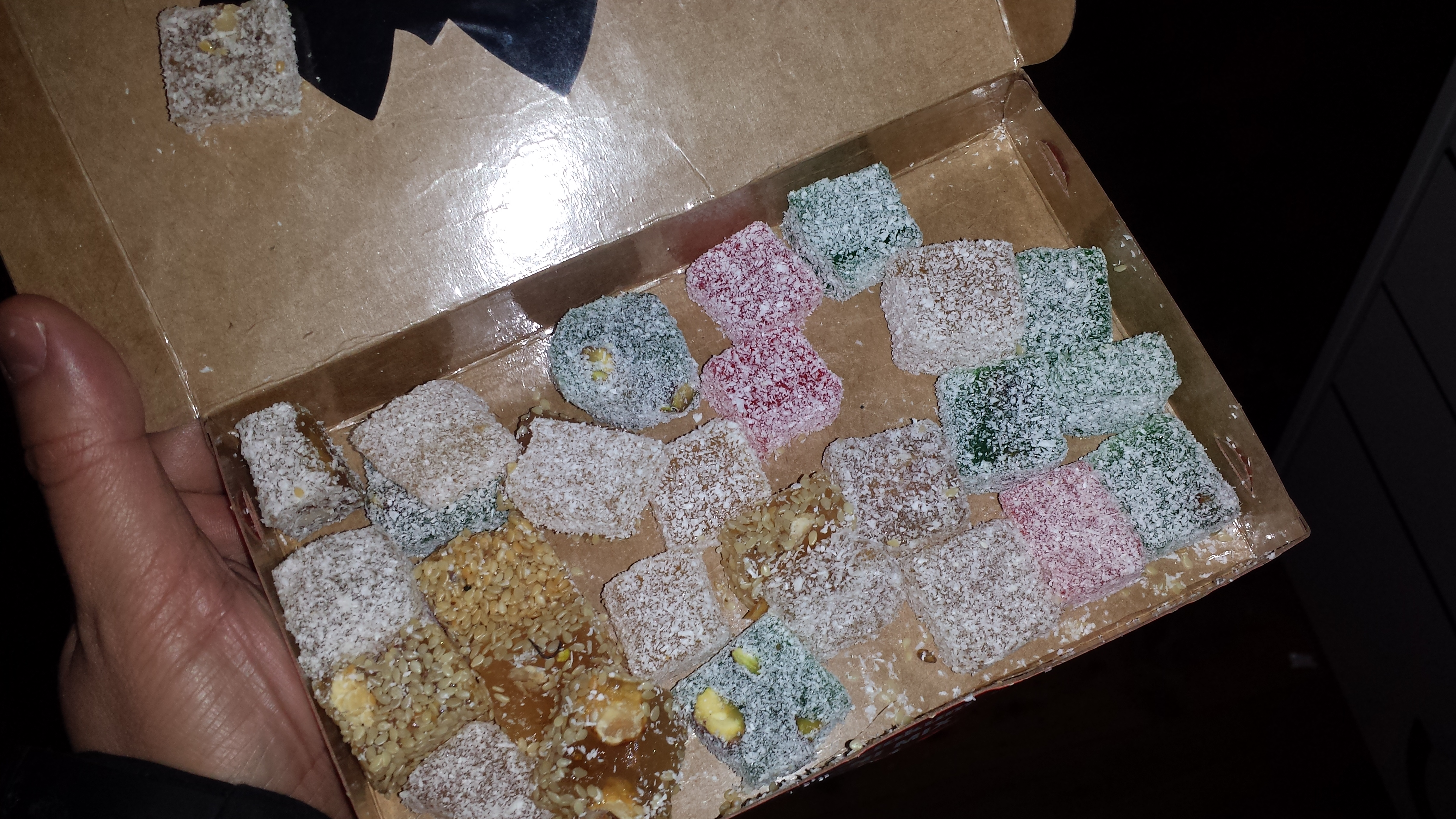 Sarajevski rahatlokum (Rose, Green apple, Vanilla)